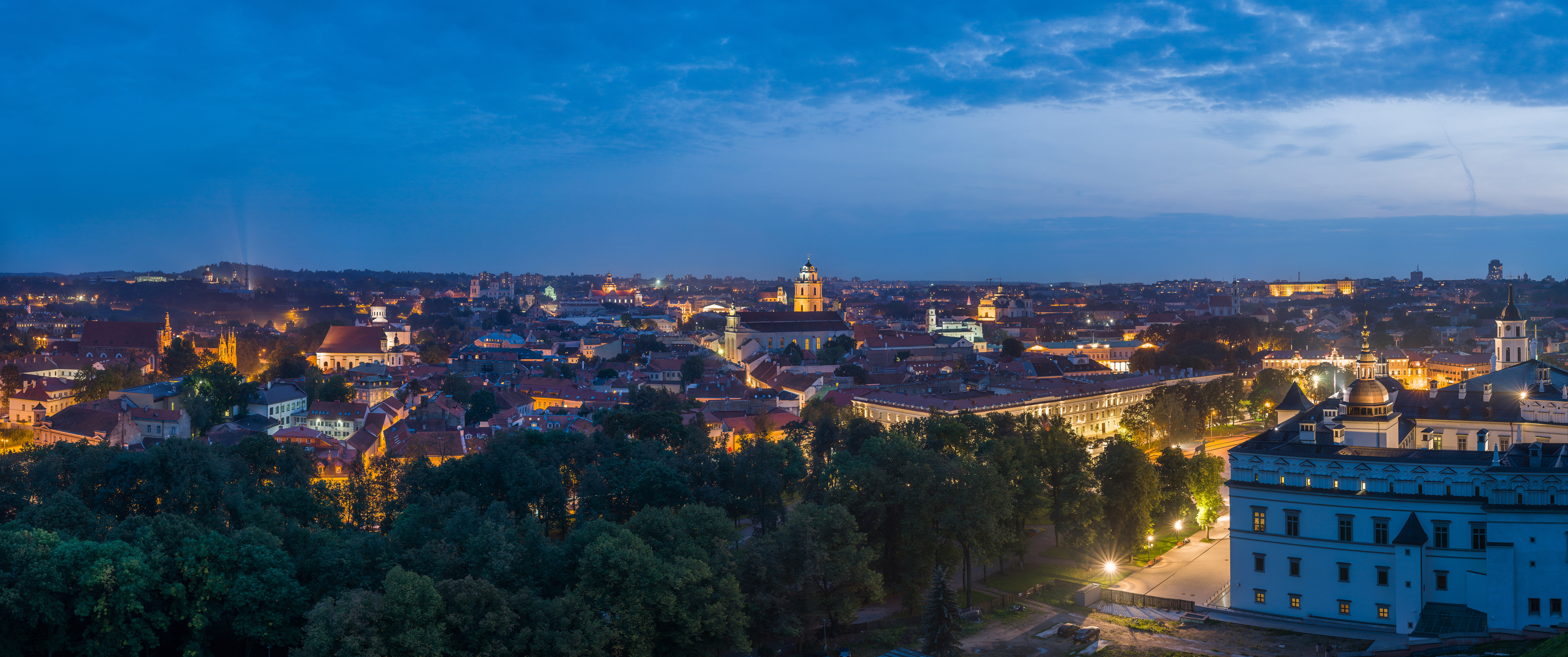 The modern skyline of Vilnius, Lithuania, as viewed at dusk from Gediminas' Tower looking south-west.